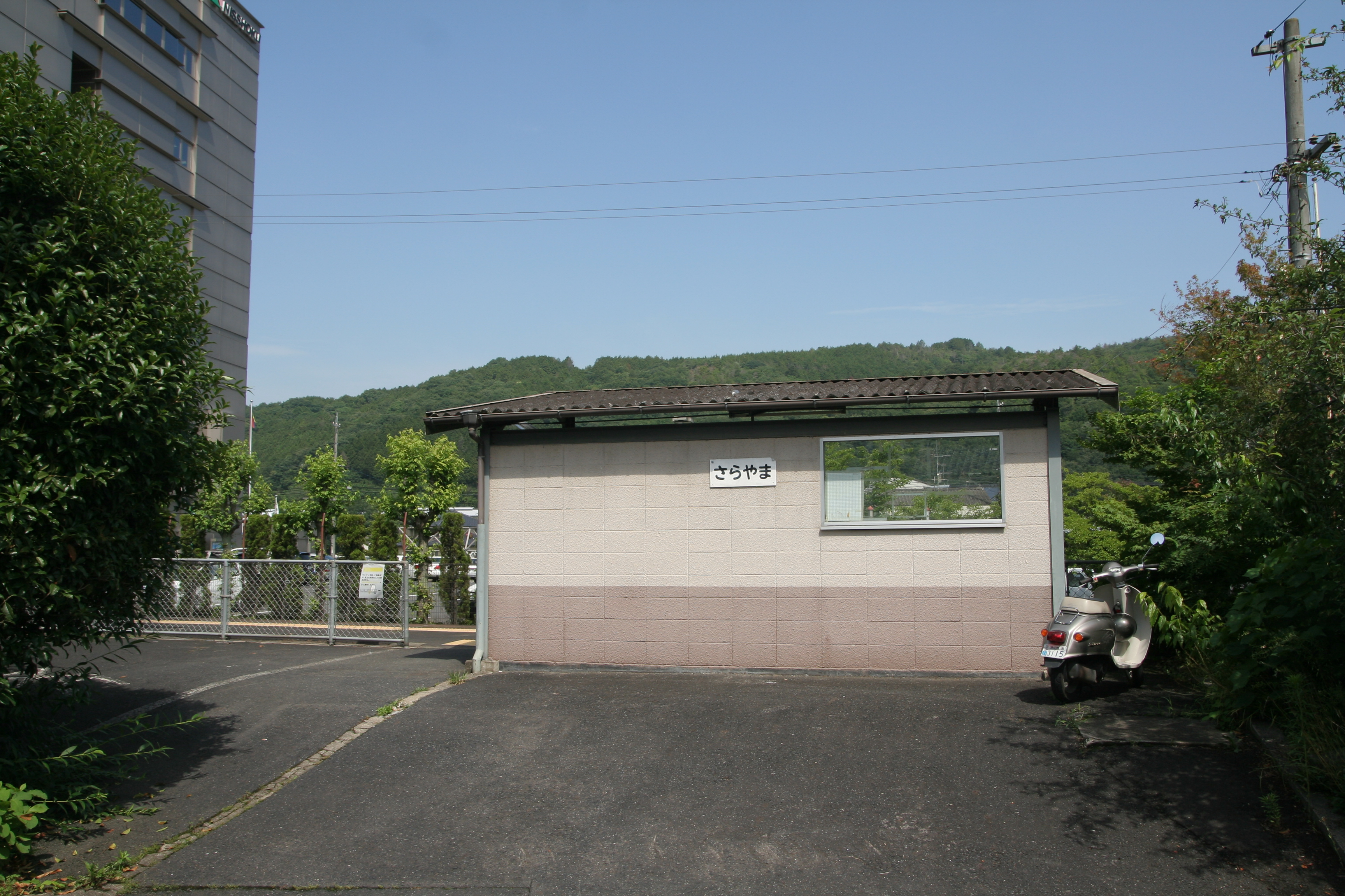 West Japan Railway Tsuyama Line Sarayama station